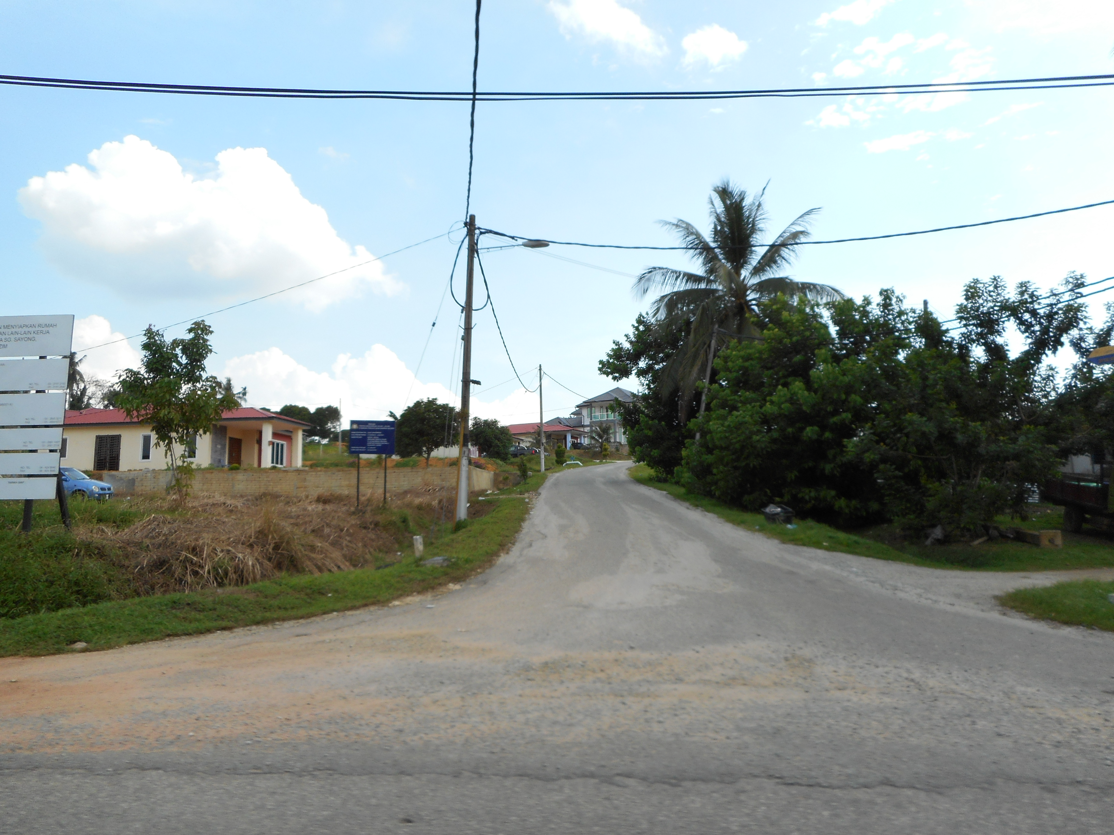 FELDA Sungai Sayong, Kulai, Johor, Malaysia